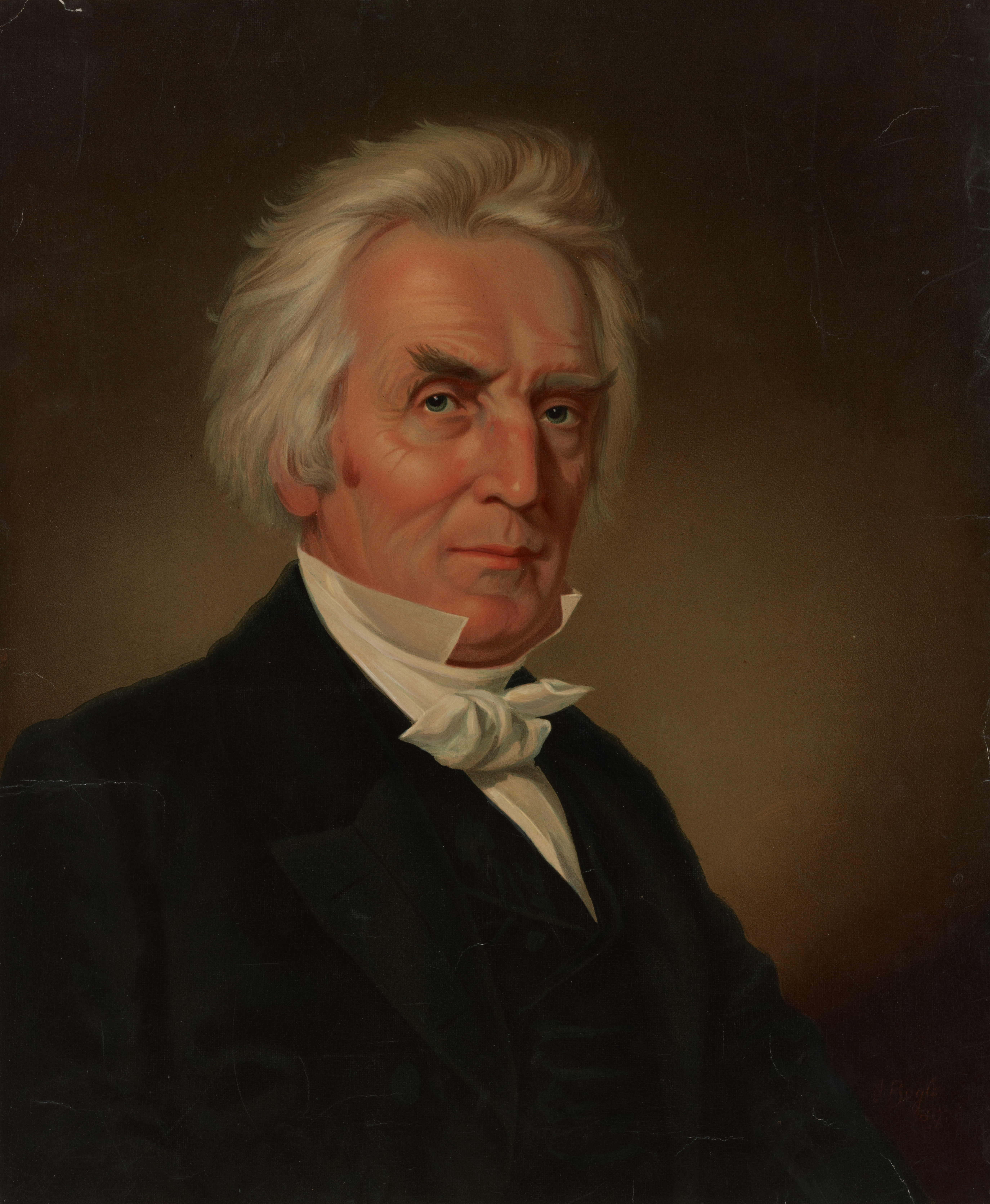 Alexander Campbell, founder of the Disciples of Christ, head-and-shoulders portrait.